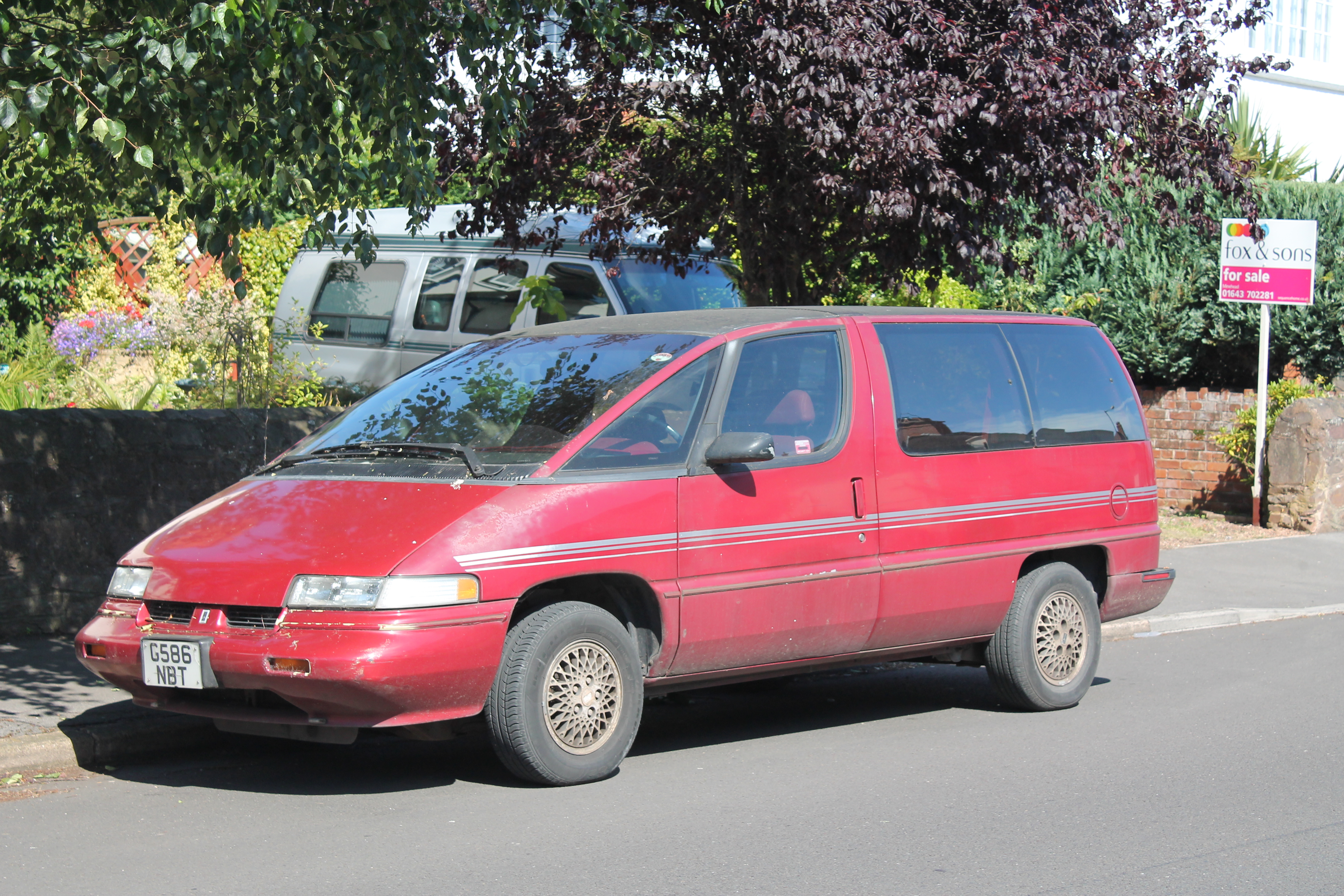 Amazingly seen soon after spotting that white one, never thought I'd see another! Owner seems to be a fan of 90s Americana, judging by the Ford motorhome behind. Very interesting design, which I quite like. Stands out from the crowd! First imported into the UK in 1995, aged 5 years. SORNed since I took the picture. The vehicle details for G586 NBT are: Date of First Registration 07 03 1995 Year of Manufacture 1990 Cylinder Capacity (cc) 3100cc CO₂ Emissions Not Available Fuel Type PETROL Export Marker N Vehicle Status SORN in place Vehicle Colour RED Vehicle Type Approval Not Available